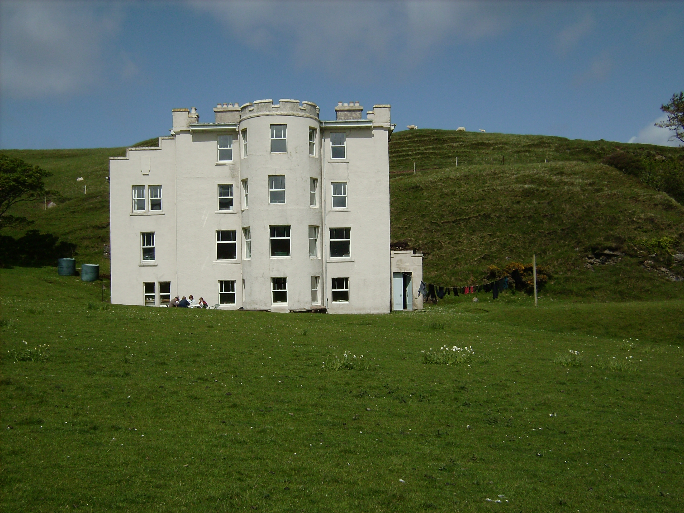 House on Inch Kenneth. This house dates to the 1930s.